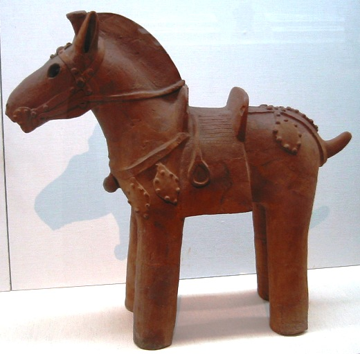 Clay horse statuette, complete with saddle and stirrups. A haniwa, from the Kofun period (6th century) in the history of Japan.